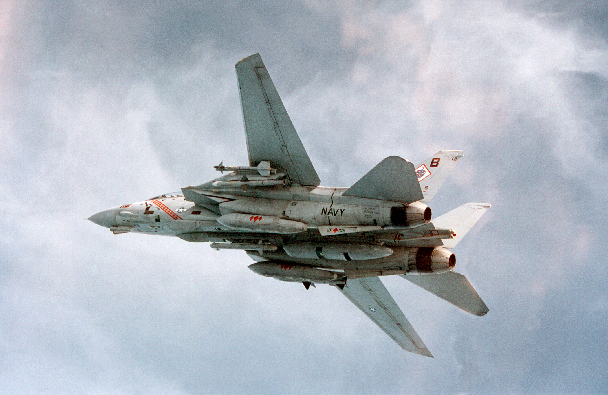 A U.S. Navy Grumman F-14B-150-GR Tomcat (BuNo 163221) attached to Fighter Squadron VF-102 aboard the aircraft carrier USS GEORGE WASHINGTON (CVN-73) soars through the skies over the Persian Gulf in support of Operation Southern Watch. The aircraft is fitted with a Tactical Aerial Reconnaissance Pod System (TARPS).